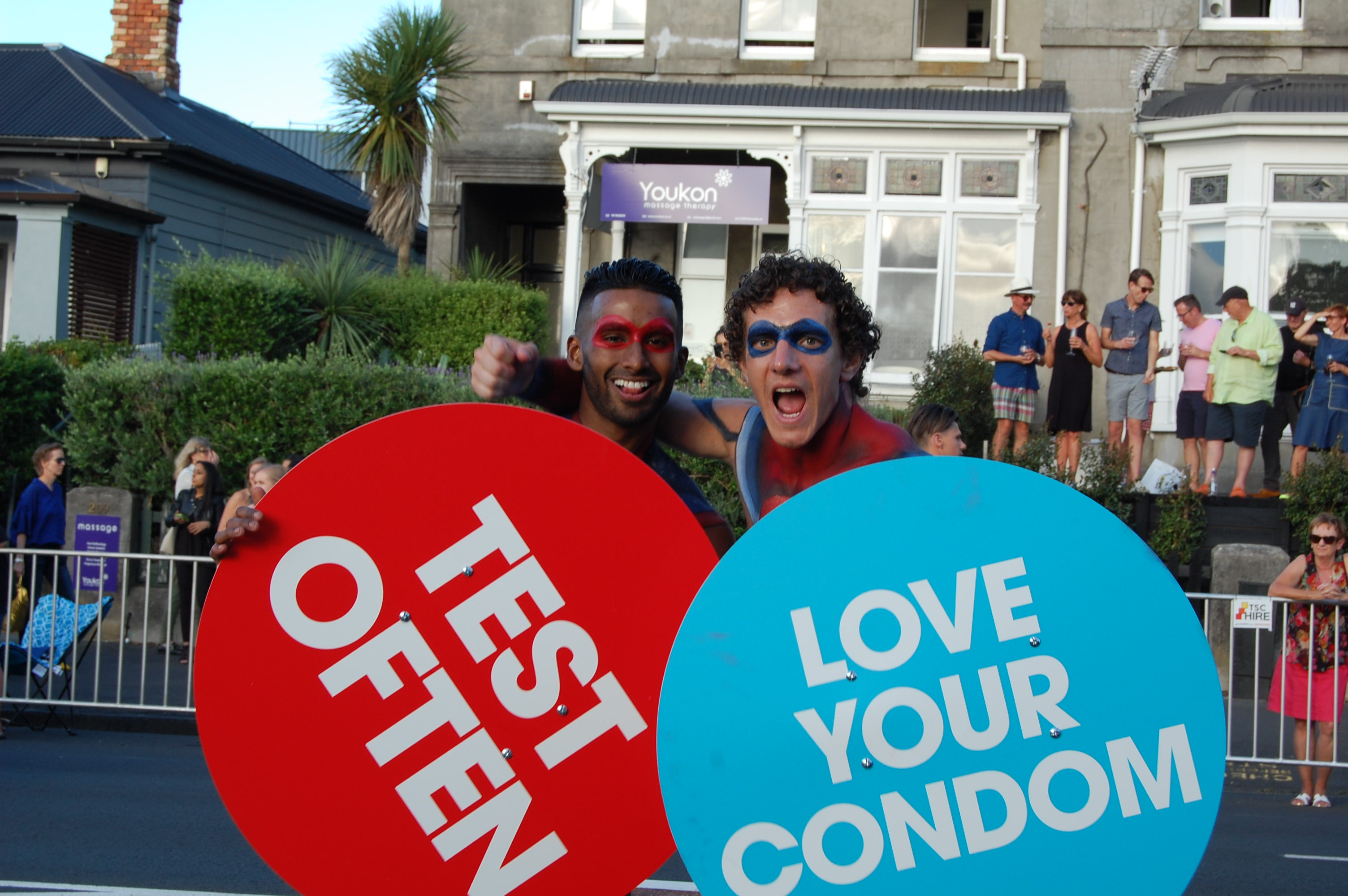 Love Your Condom by New Zealand AIDS Foundation on Auckland pride parade 2016 Personality rights warningAlthough this work is freely licensed or in the public domain, the person(s) shown may have rights that legally restrict certain re-uses unless those depicted consent to such uses. In these cases, a model release or other evidence of consent could protect you from infringement claims.